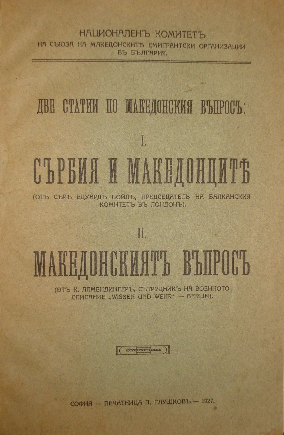 Serbia and the Macedonians. Macedonian Question